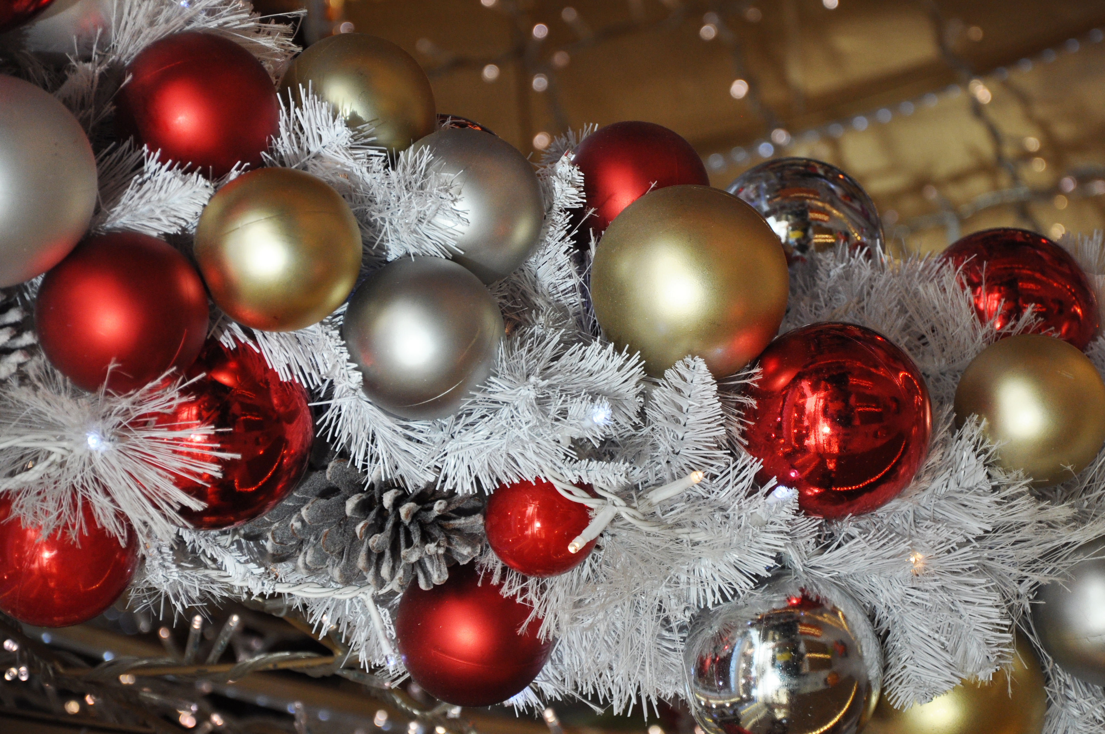 Christmas baubles, France